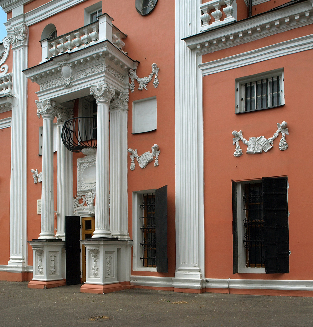 Сhurch of Archangel Gabriel in Moscow, aka Menshikov Tower